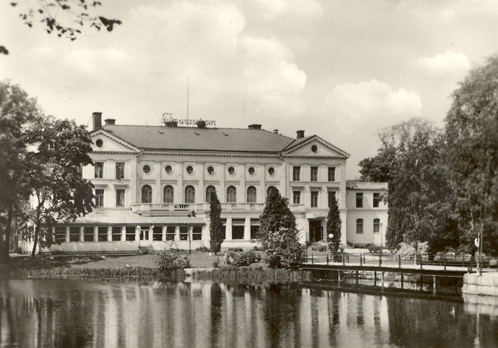 The masonic building in Örebro Sweden